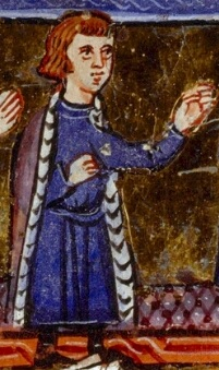 Bohemond III of Antioch in Jerusalem (1181)